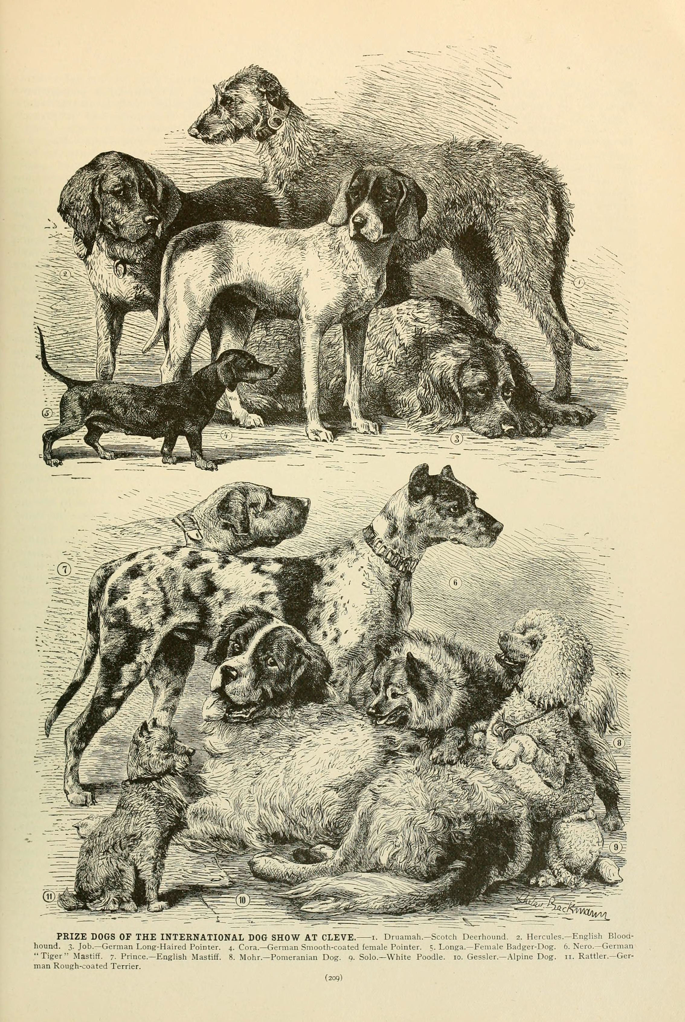 PRIZE DOGS OF THE INTERNATIONAL DOG SHOW AT CLEVE. 1. Druamah— Scotch Deerhound. 2. Hercules.— English Blood- hound. 3. Job.— German Long-Haired Pointer. 4. Cora.— German Smooth-coated female Pointer. 5. Longa.— Female Badger-Dog. 6. Nero.— German "Tiger" Mastiff. 7. Prince.— English Mastiff. 8. Mohr.— Pomeranian Dog. Q. Solo.— White Poodle. 10. Gessler.— Alpine Dog. n. Rattler.— Ger- man Rough-coated Terrier. (209)